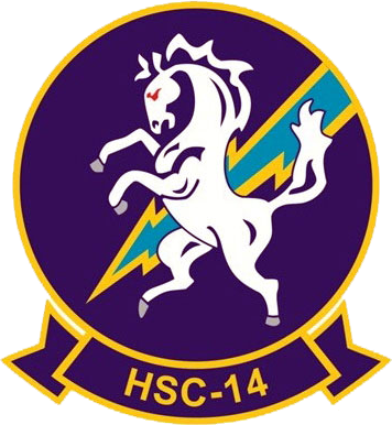 Emblem of the U.S. Navy Helicopter Sea Combat Squadron 14 (HSC-14) "Chargers".